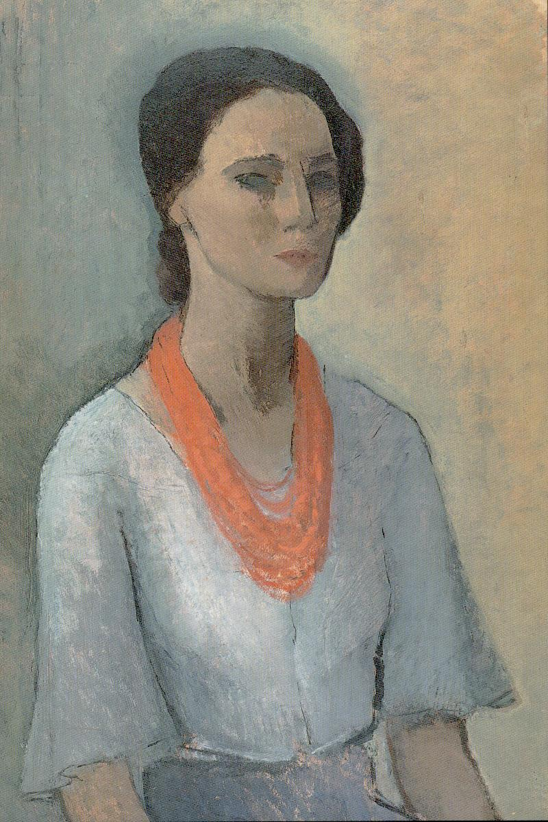 Autoritratto dell'artista a 29 anni, dipinto a Venezia